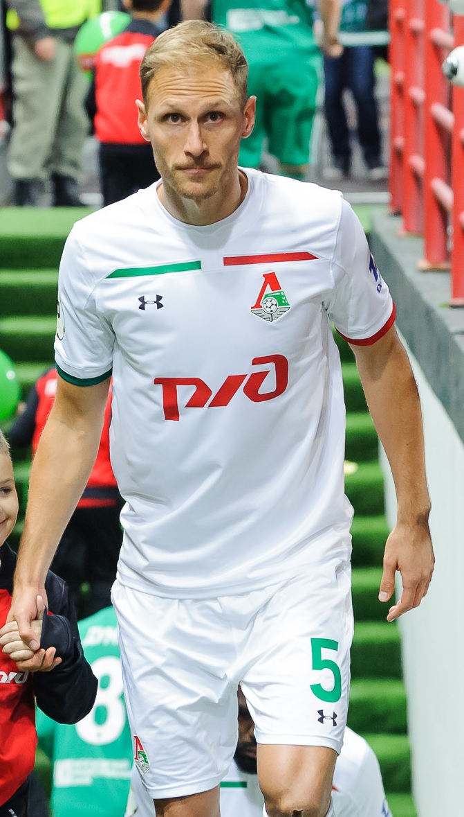 Benedikt Höwedes with FC Lokomotiv Moscow before the game against FC Akhmat Grozny.